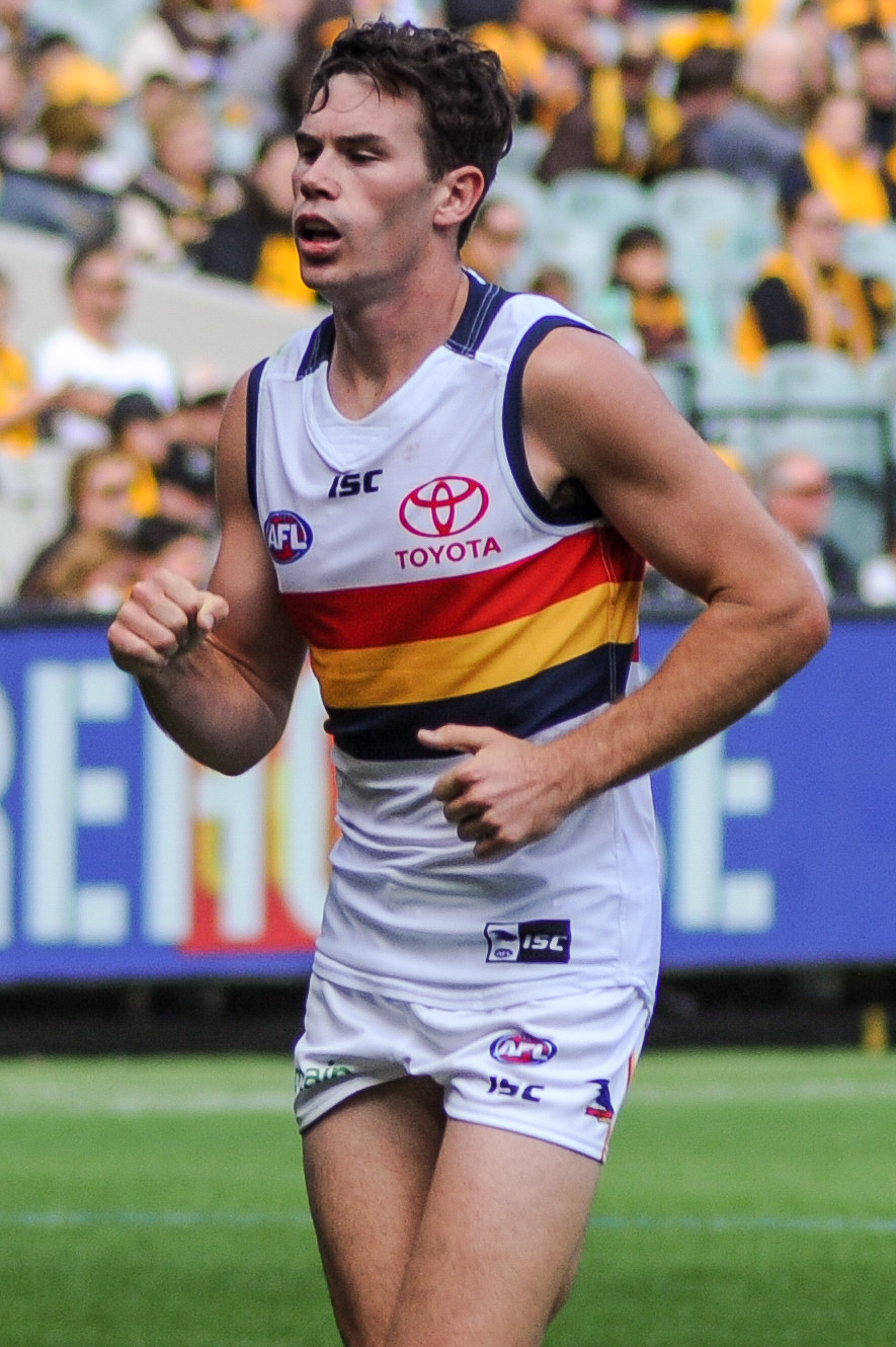 Mitch McGovern during the AFL round two match between Hawthorn and Adelaide on 1 April 2017 at the Melbourne Cricket Ground in Melbourne, Victoria.